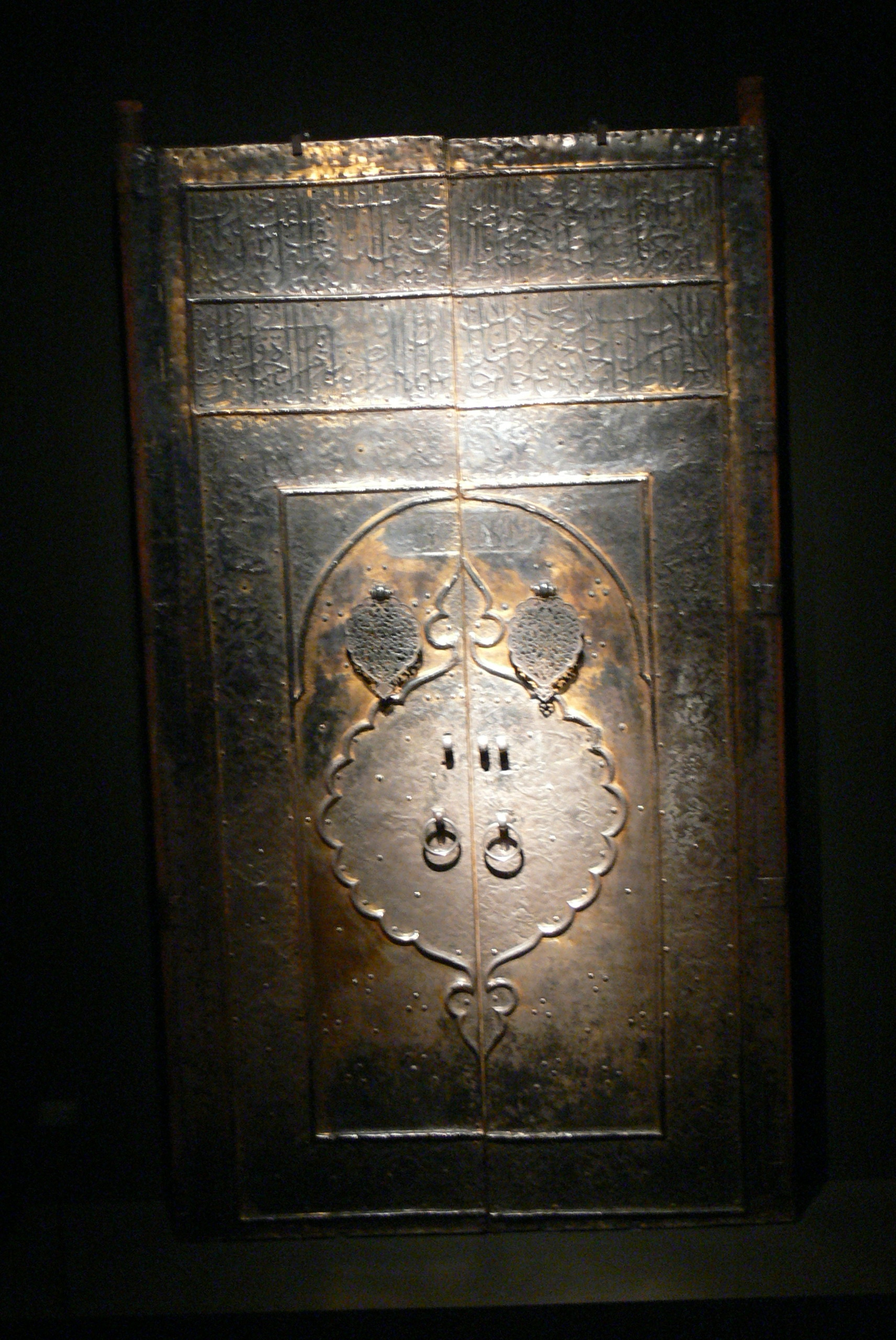 Pergamon Museum (Berlin). Exhibition "Roads of Arabia": Door of the Kaaba (1636), gilted silver on wood, 342x182 cm, probably from Turkey (National Museum, Riyadh).